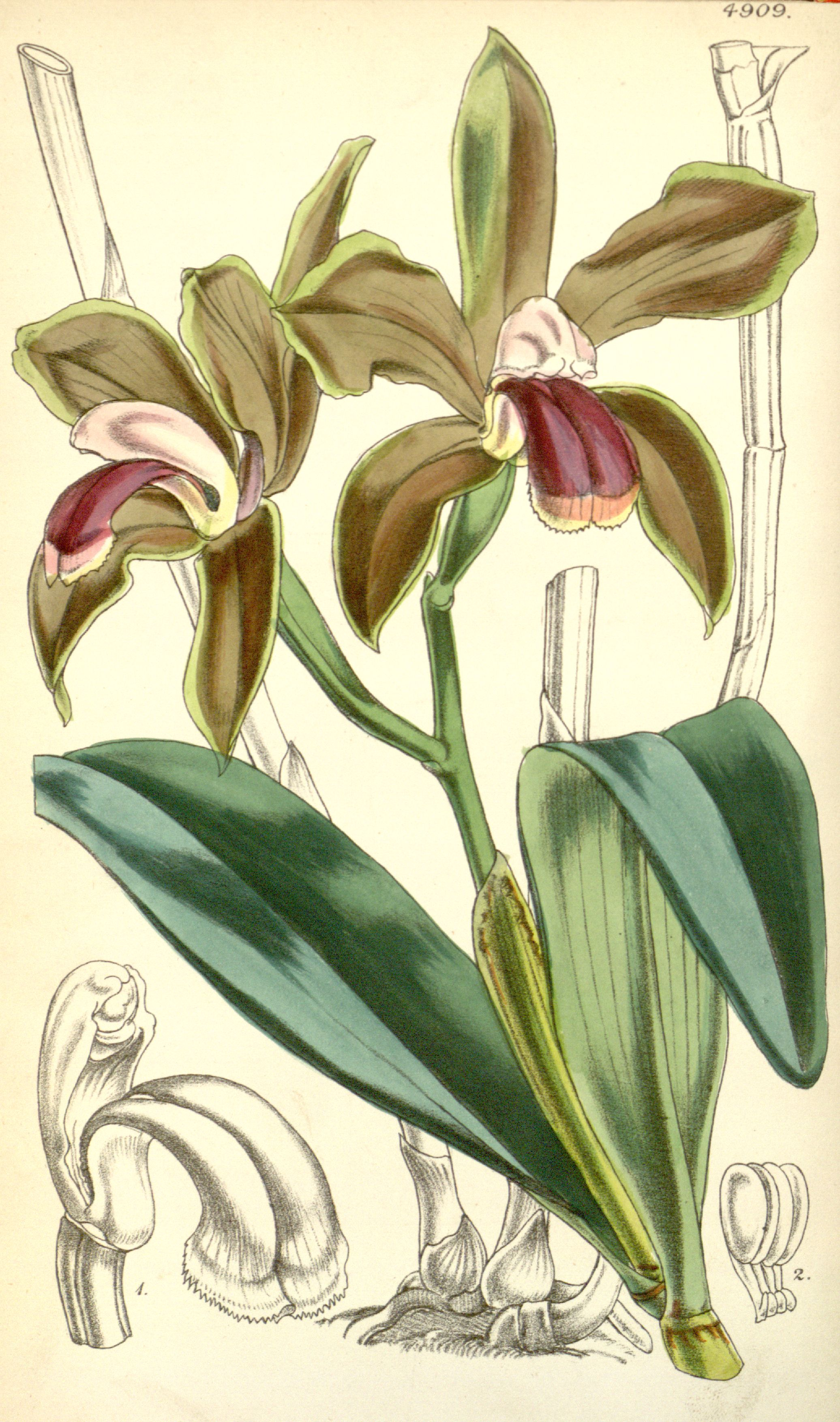 Illustration of Cattleya bicolor (Cattleya bicolor